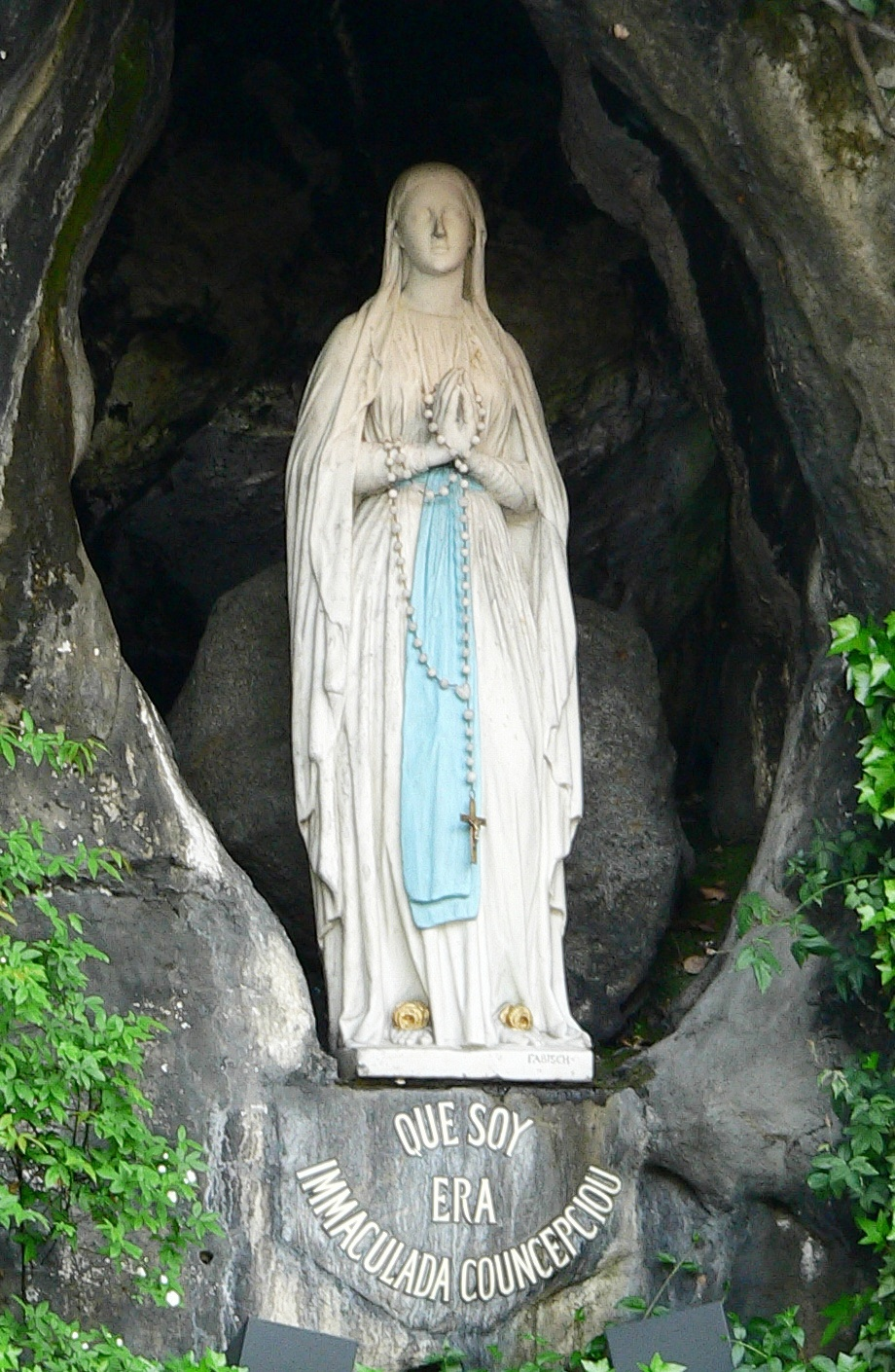 Description: Blessed Virgin of Lourdes :Place: Lourdes (Grotte de Massabielle) :Country: France :Photographer: © Manuel González Olaechea y Franco :Shot date : May 1st, 2005